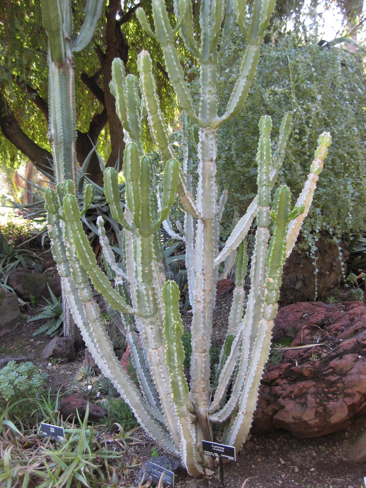 Photographed at Huntington Gardens (Los Angeles) in March